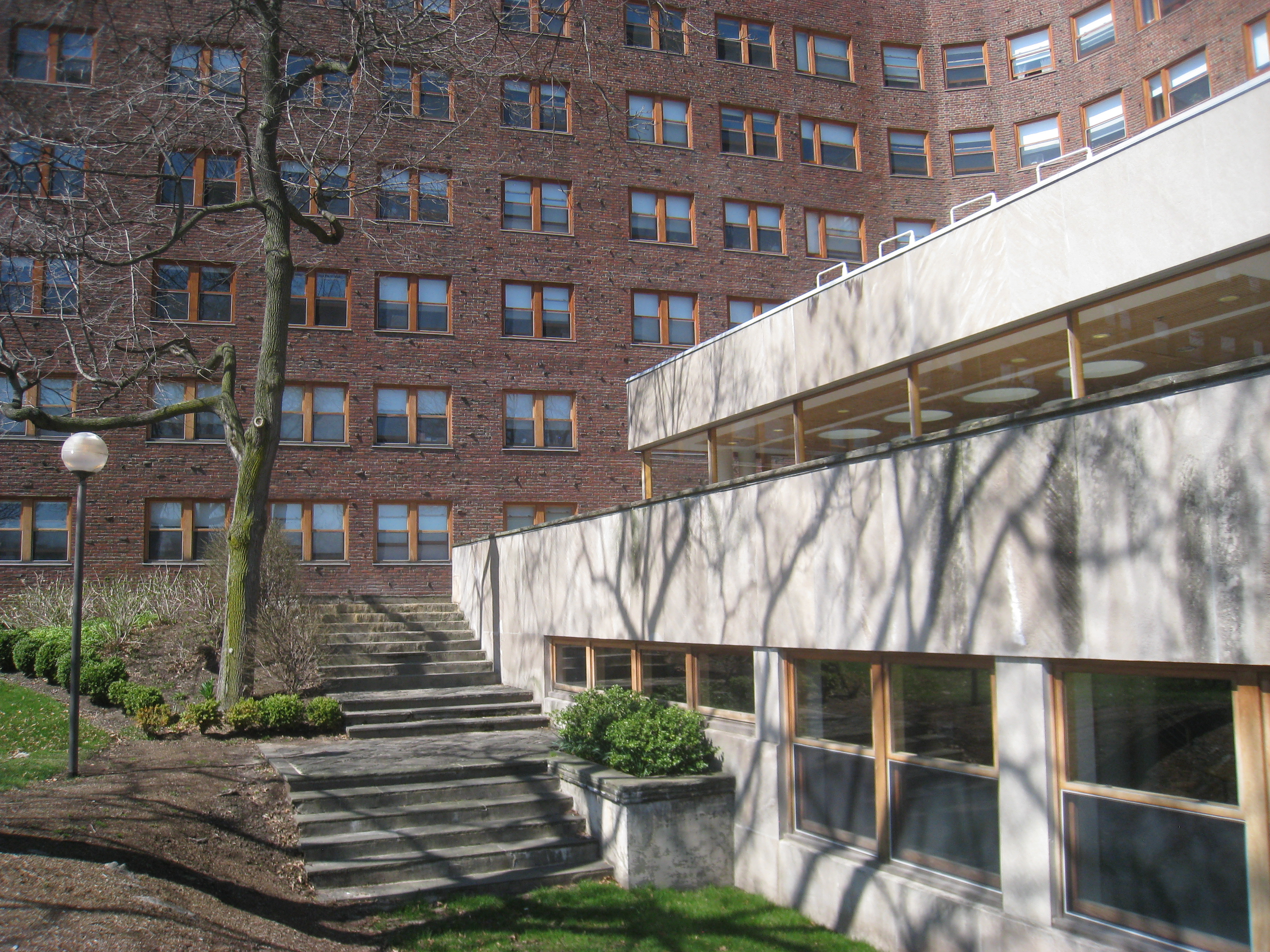 Baker House, Massachusetts Institute of Technology, Cambridge, Massachusetts, USA.